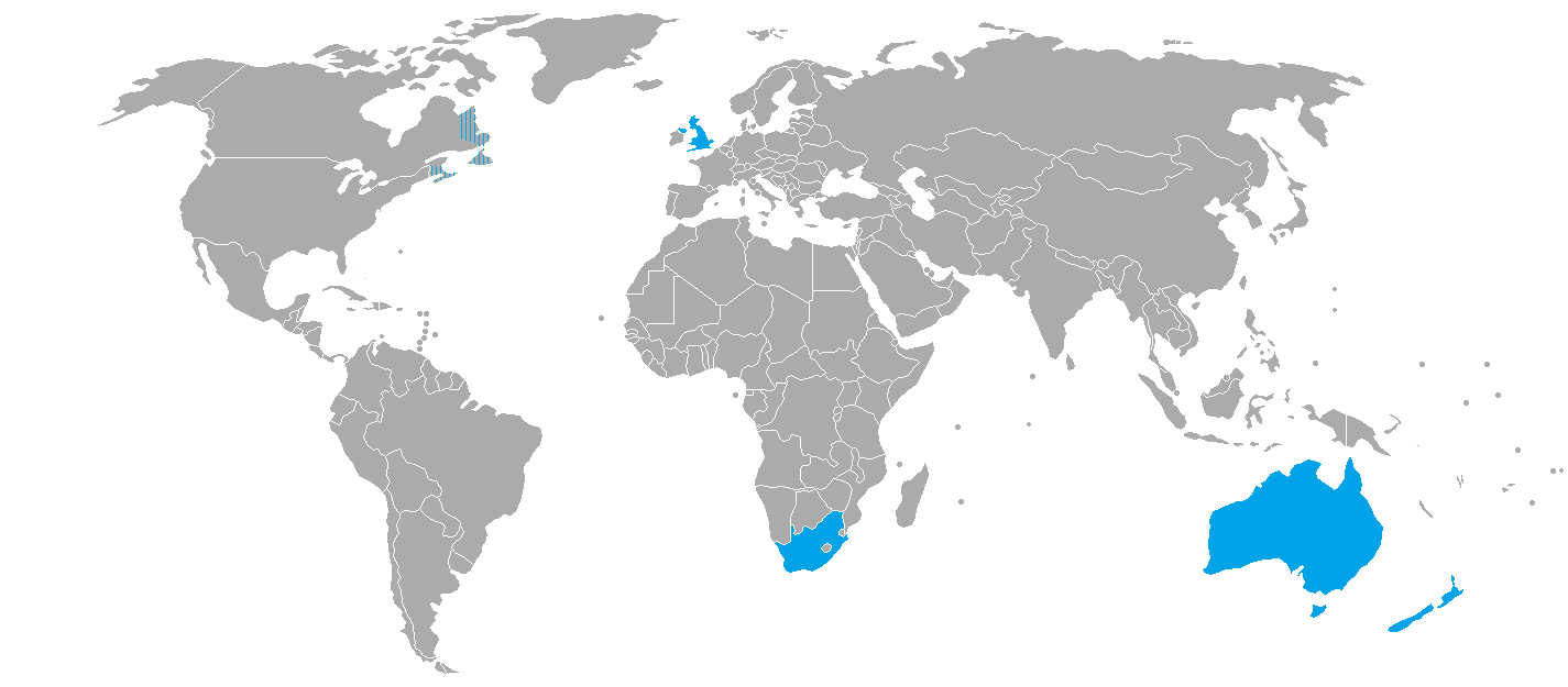 Countries where BANZSL is spoken. It is moribund in Canada.